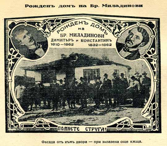 Miladinovi Brothers House in 1912